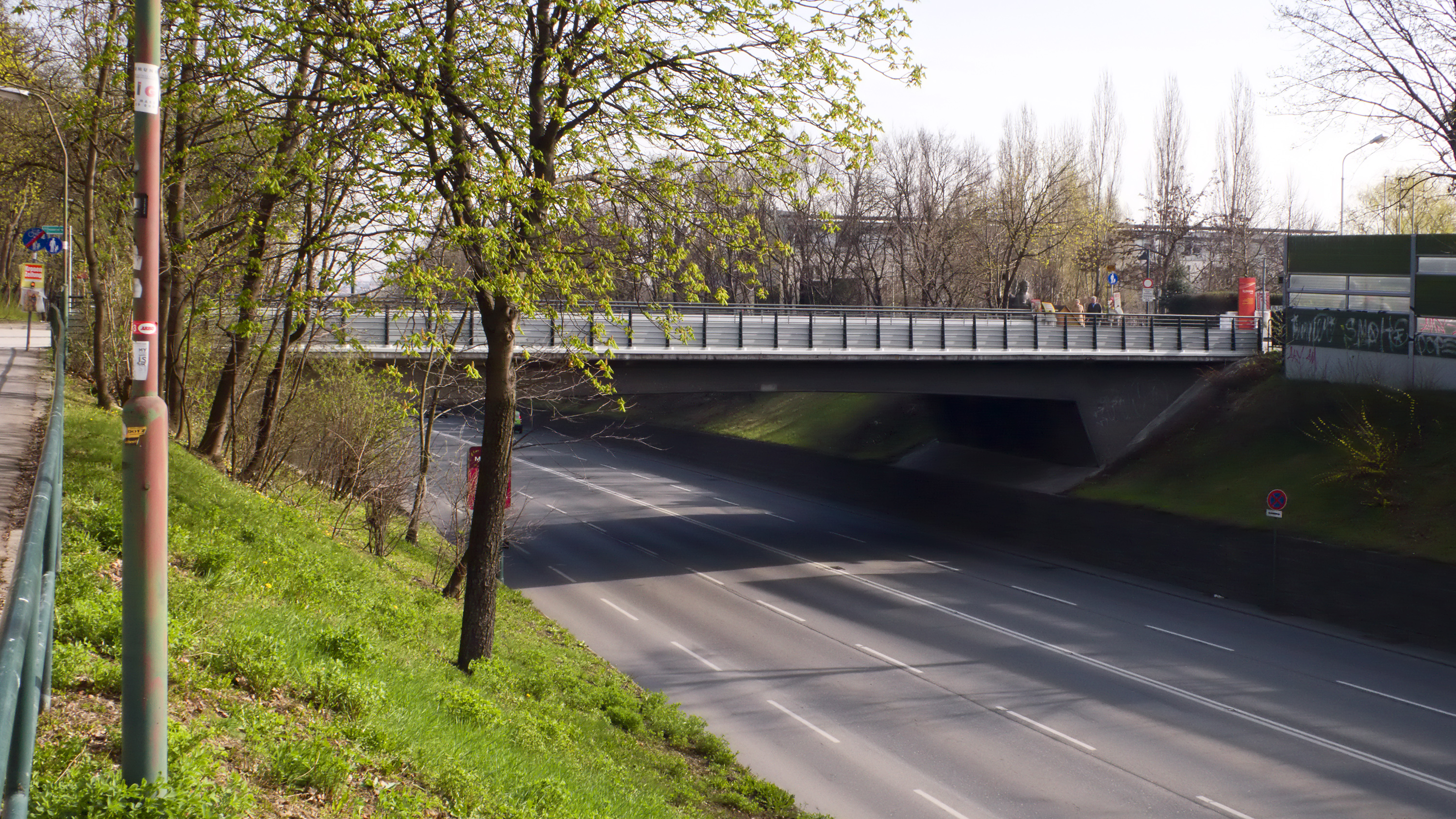 Bridge Tivolibrücke (Wien) in Vienna Hietzing